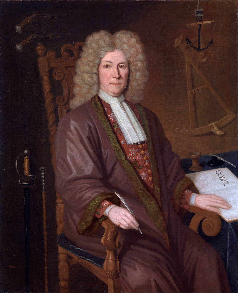 Captain Robert Knox (1642-1720) of the East India Company oil on canvas 126 x 102.8 cm 1711 inscribed b.l.: AEtat: 66 inscribed b.l.: P: Trampon : Pinx (on the chair) inscribed c.r.: R: Knox: (on the quadrant) inscribed c.r.: Memoires of my owne Life: 1708 (on the notebook)